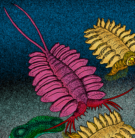 My reconstruction of the suspected Sirius Passet anomalocarid, Kerygmachela kierkegaardi, from Cambrian Greenland. (C) Stanton F. Fink